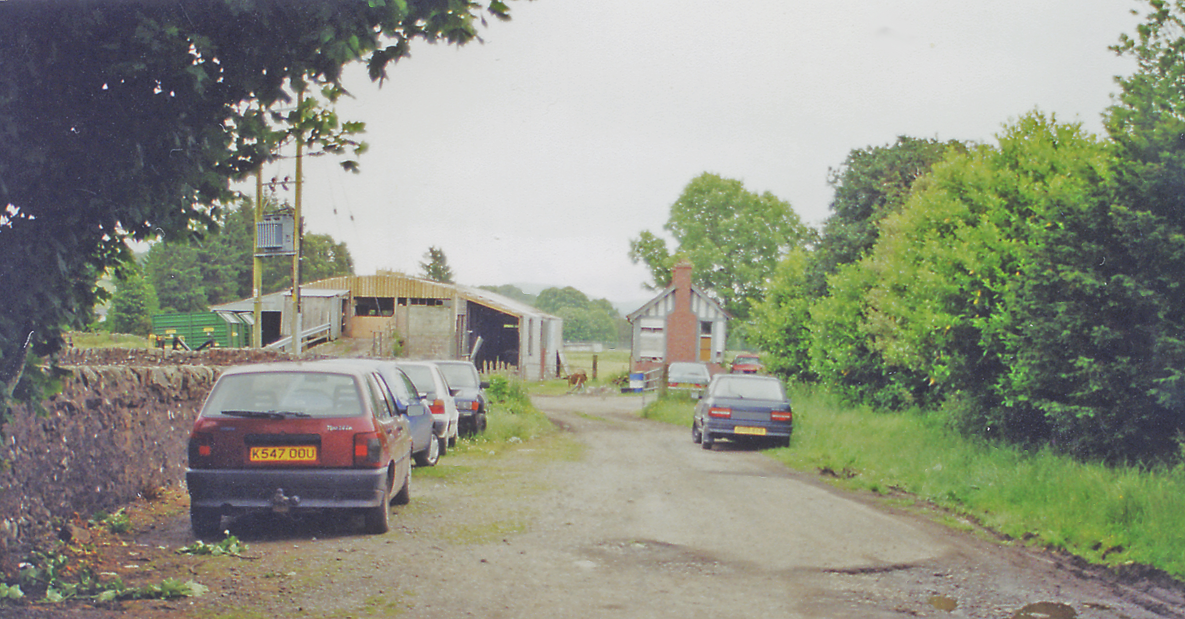 Moniaive: site/remains of station, 2000. View SE, towards Dumfries: terminus of the ex-G&SWR Cairn Valley railway from Dumfries, closed to passengers 3/5/43, to goods 4/7/49!